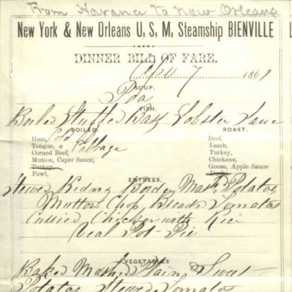 Menus from hotels, restaurants, and steamboats in the 1850s and 60s.